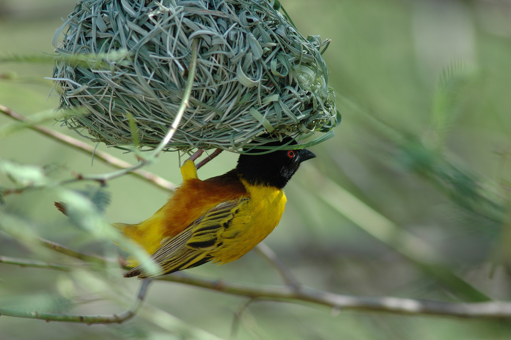 Golden-backed Weaver (Ploceus jacksoni) On the Baringo lake shore, Kenya, 2005.